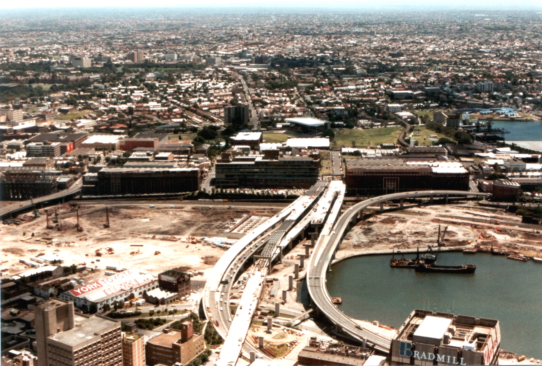 Pyrmont, Darling Harbour, Sydney city CBD: The goods yards have gone (not to Goondiwindi, as Neville Wran suggested) and the dredges and pile drivers are at work. For years, only the pylons of the motorway stood like a new age stonehenge, now they are being used to prop up commuters.